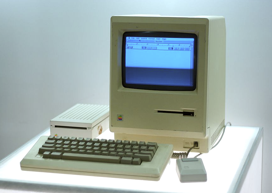 Cropped, Color adjusted version of Macintosh, Google NY office computer museum.jpg